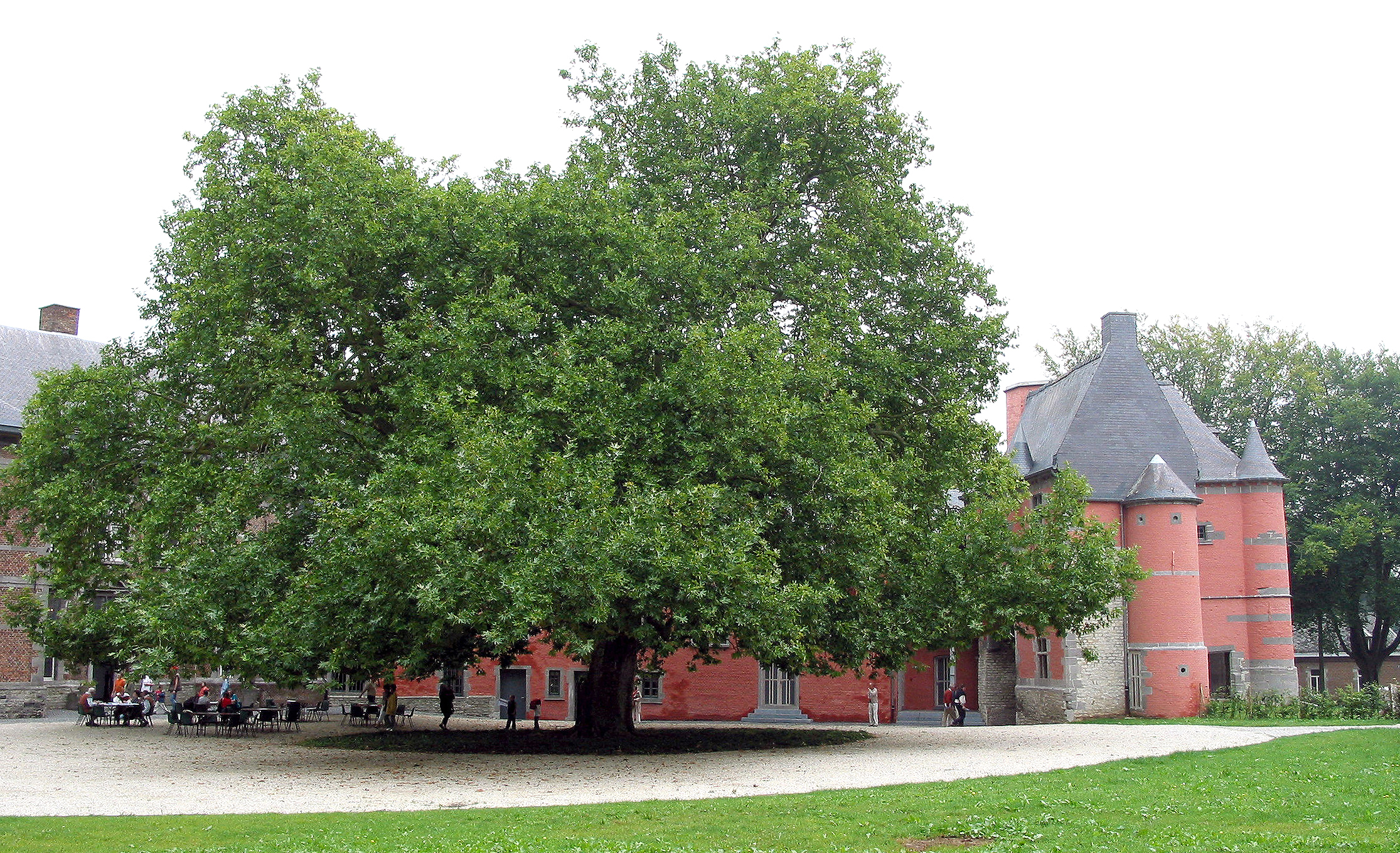 Trazegnies (Belgium), castle court - London plane tree (platanus acerifolia) - ancient fetich tree - caractéristics: circumference at 1m50 of the grond, scale 47m, age 285 year old.